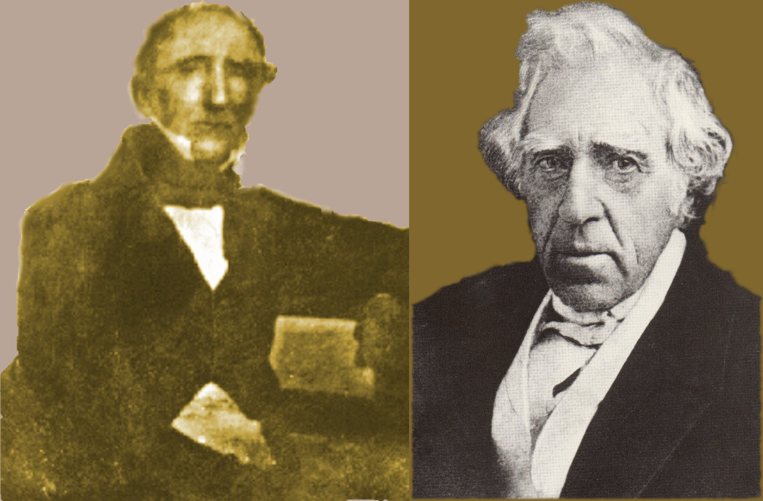 James Innerarity (left) and his brother, John Innerarity (right) were two partners in the trading firm of John Forbes & Company.